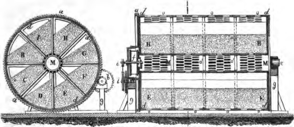 Vallery mobile's granary